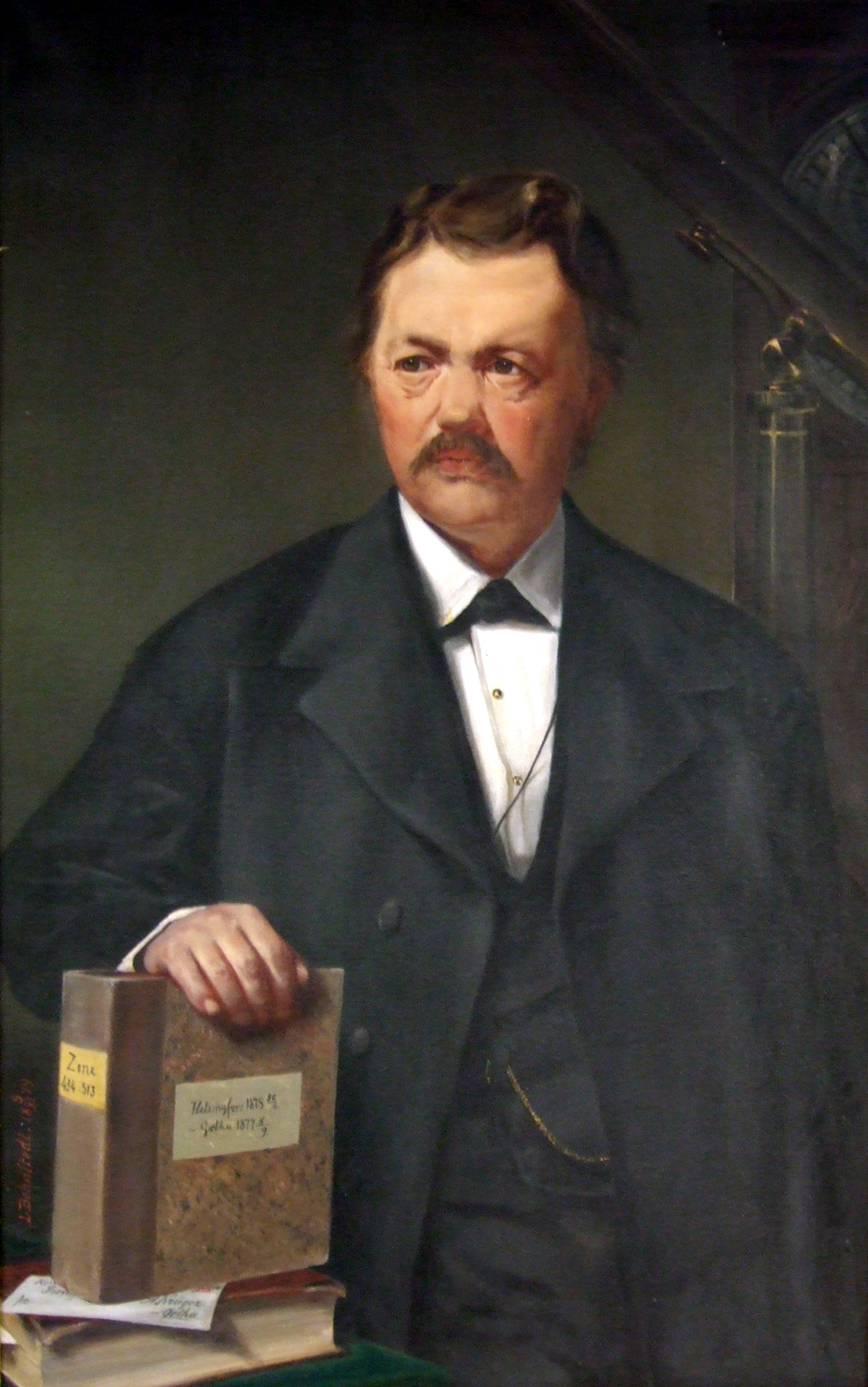 Portrait of Adalbert Krüger. The writing on the book refers to two of the observatories where he worked: Helsingfors (1875) and Gotha (1877). Painting by Ludwig Bohnstedt (1822-1885), Gotha. Now located at the University of Helsinki Observatory. Photo: Eva Isaksson.